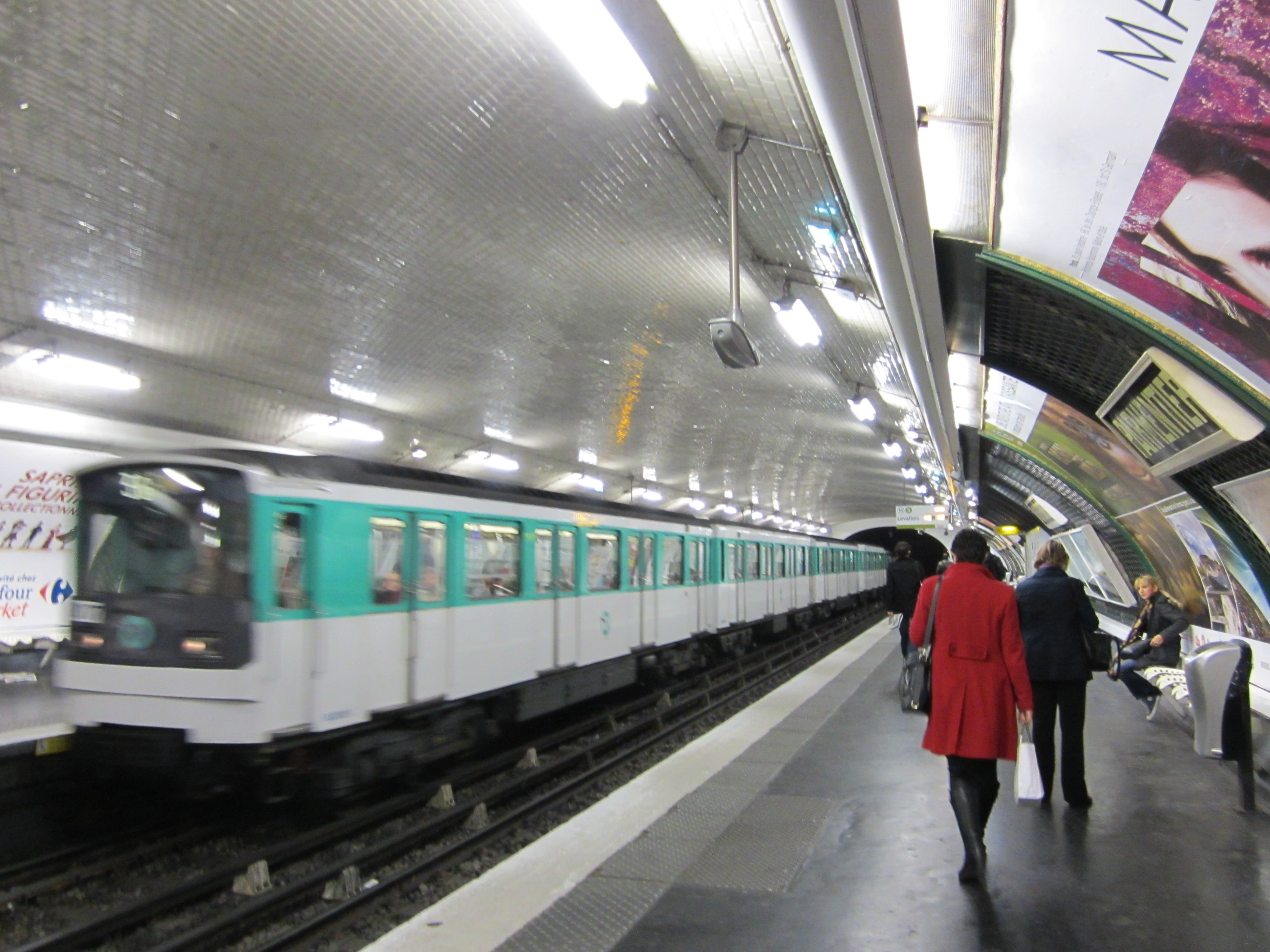 A train at Parmentier station